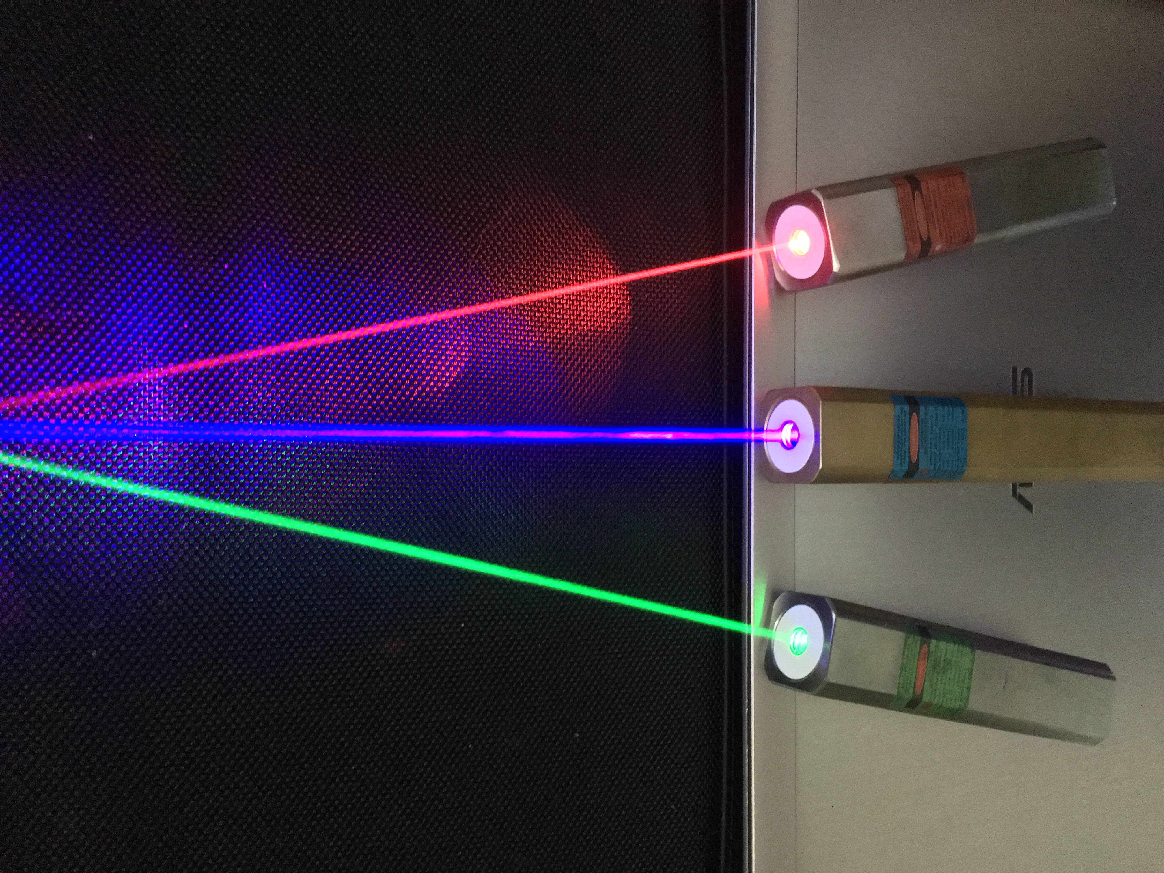 Laser pointers Red Laser 635nm Green Laser 520nm Blue Laser 445nm